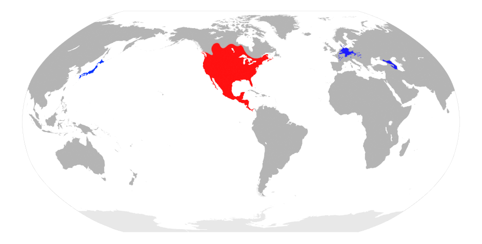 This map shows the worldwide range of the raccoon, the native range is red, the introduced range is blue. The distribution in North America is based on the map on page 80 in the book “Raccoons: A Natural History” by Samuel I. Zeveloff. The distribution in Europe is based on the map in the article “Procyon lotor” by Marten Winter (DAISIE). The distribution in Japan is based on the map in the article “Present Status of Invasive Alien Raccoon and its Impact in Japan” by Tohru Ikeda et al. The distribution in the Caucasus region is based on the map on page 12 in the book “Der Waschbär” (“The Raccoon”) by Ulf Hohmann. Edit on 6 December 2008: Nova Scotia is once again red according to [1]. A population of raccoons has been found in Italy near Bergamo according to [2]. (From Raccoon-range.png)